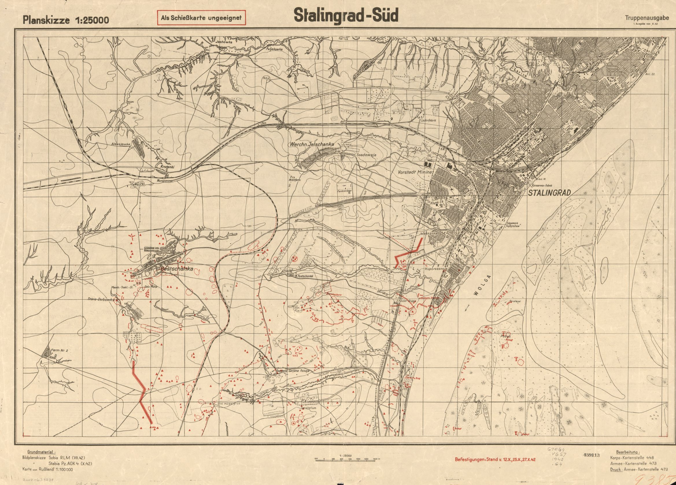 1942 German map of Stalingrad by the German Army General Staff